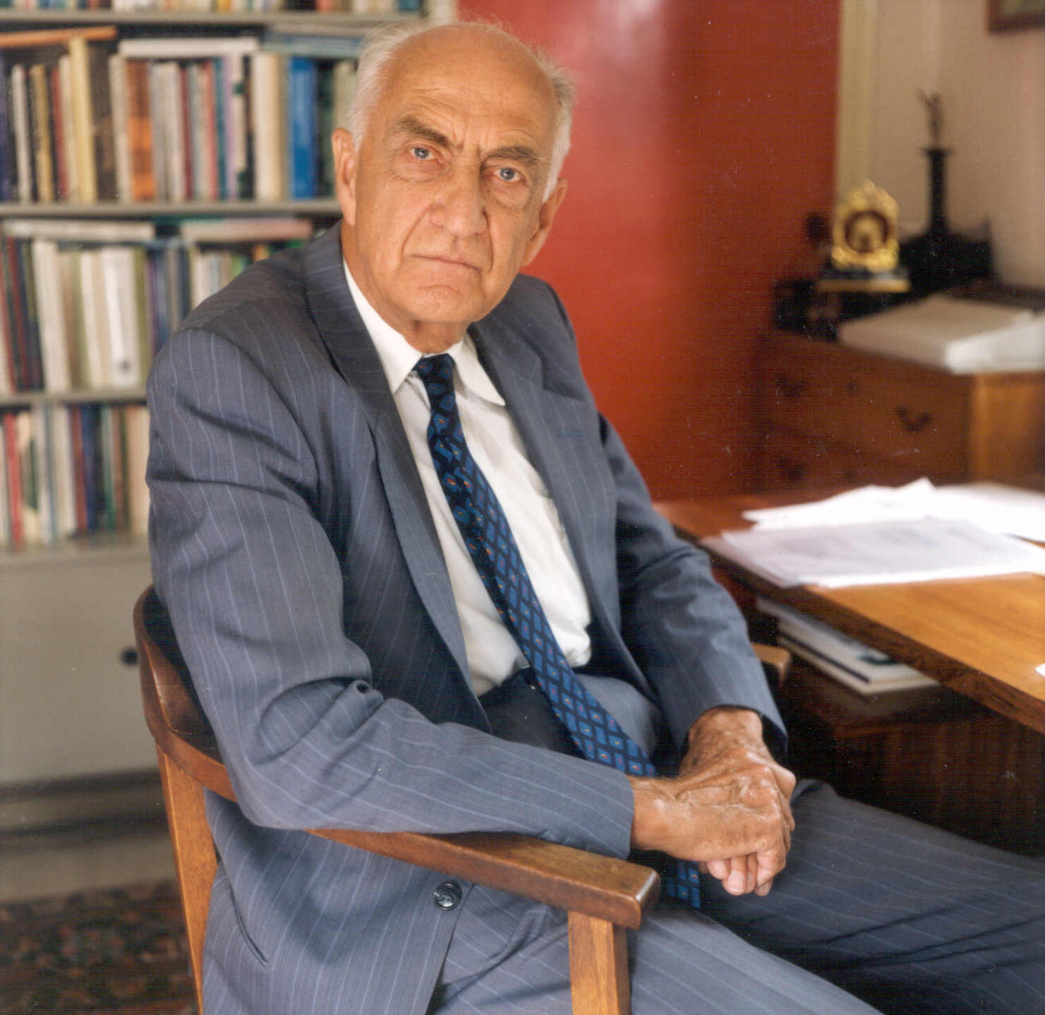 Picture of Prof. dr. ir. Anne van den Ban.Taken in the 1980ies. Founder of the Extension Education department of Wageningen University. Picture made available by Communication Sciences WUR.